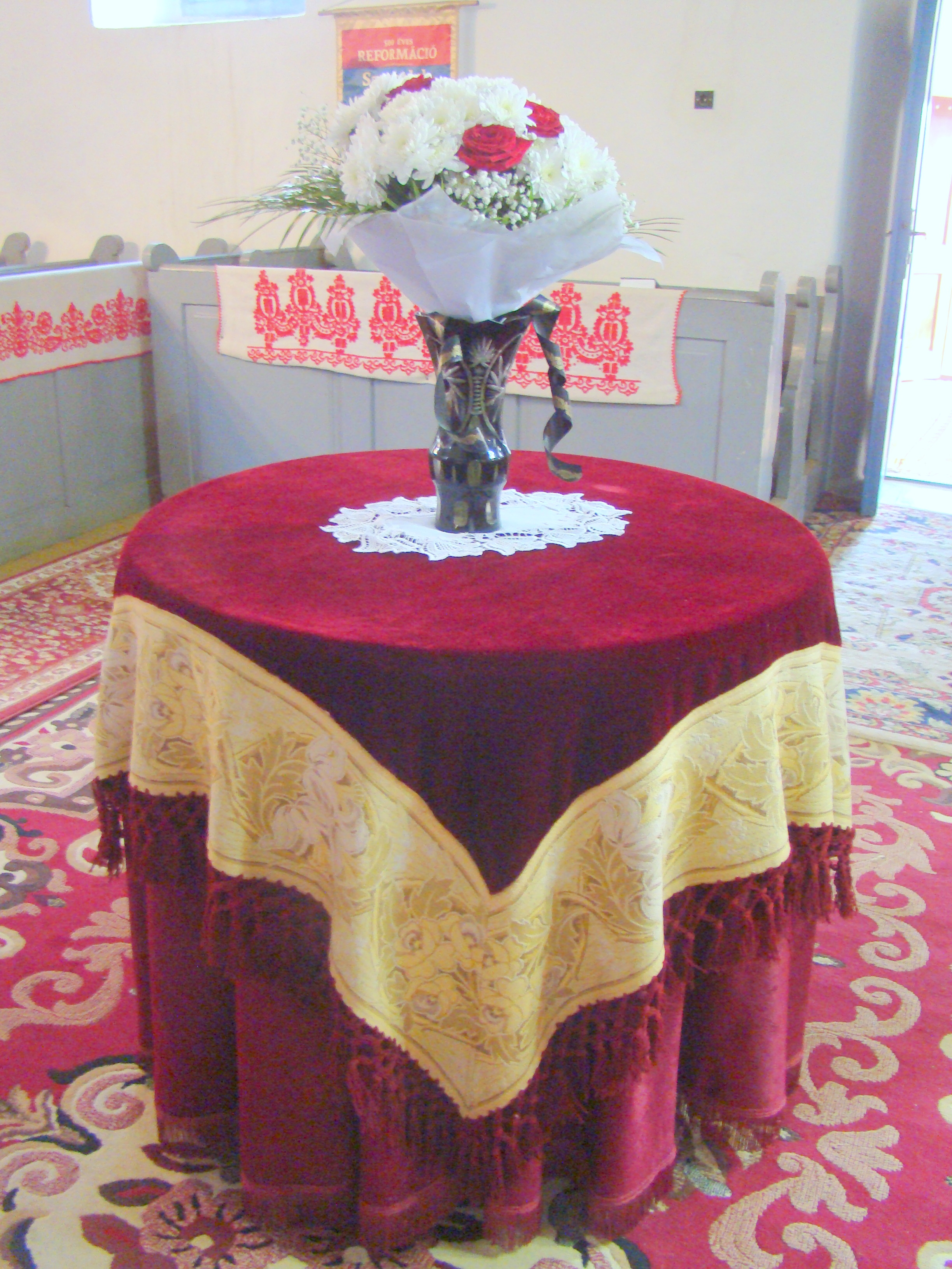 Reformed church in Mureni, Mureș county, Romania